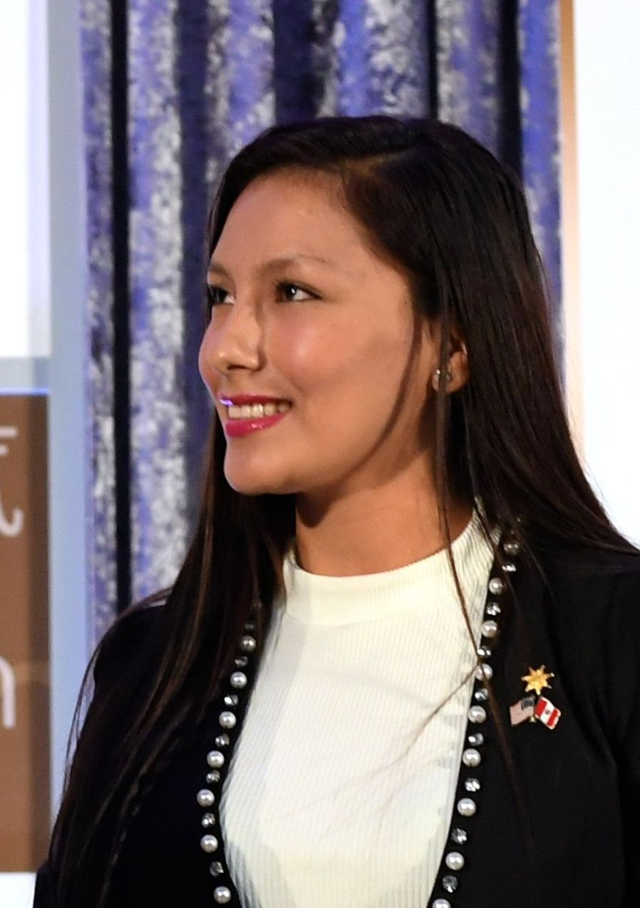 "First Lady Melania Trump presents the 2017 International Women of Courage Award to Cindy Arlette Contreras Bautista of Peru during a ceremony at the U.S. Department of State in Washington, D.C., on March 29, 2017." "Arlette Contreras Bautista is a Peruvian activist, lawyer, and domestic violence survivor. Her case, captured on video, sparked nationwide outrage and unprecedented demonstrations in Peru against gender-based violence. Arlette refused to accept the one-year suspended sentence her attacker received for the lesser charge of assault, after the court dismissed the more serious charges of attempted murder and rape. She joined forces with other survivors of domestic violence, civil society organizations, and regular citizens to launch Peru's grass roots "Not One Woman Less" movement. Arlette's leadership and out-spoken advocacy against domestic violence galvanized a peaceful protest march where over a hundred thousand people flooded downtown Lima in August 2016. Her actions greatly increased social and political awareness in Peru about women's rights and gender-based violence. Despite threats against herself and her family, Arlette continues to fight for justice, inspiring women throughout the country to stand up for their rights. " [1]